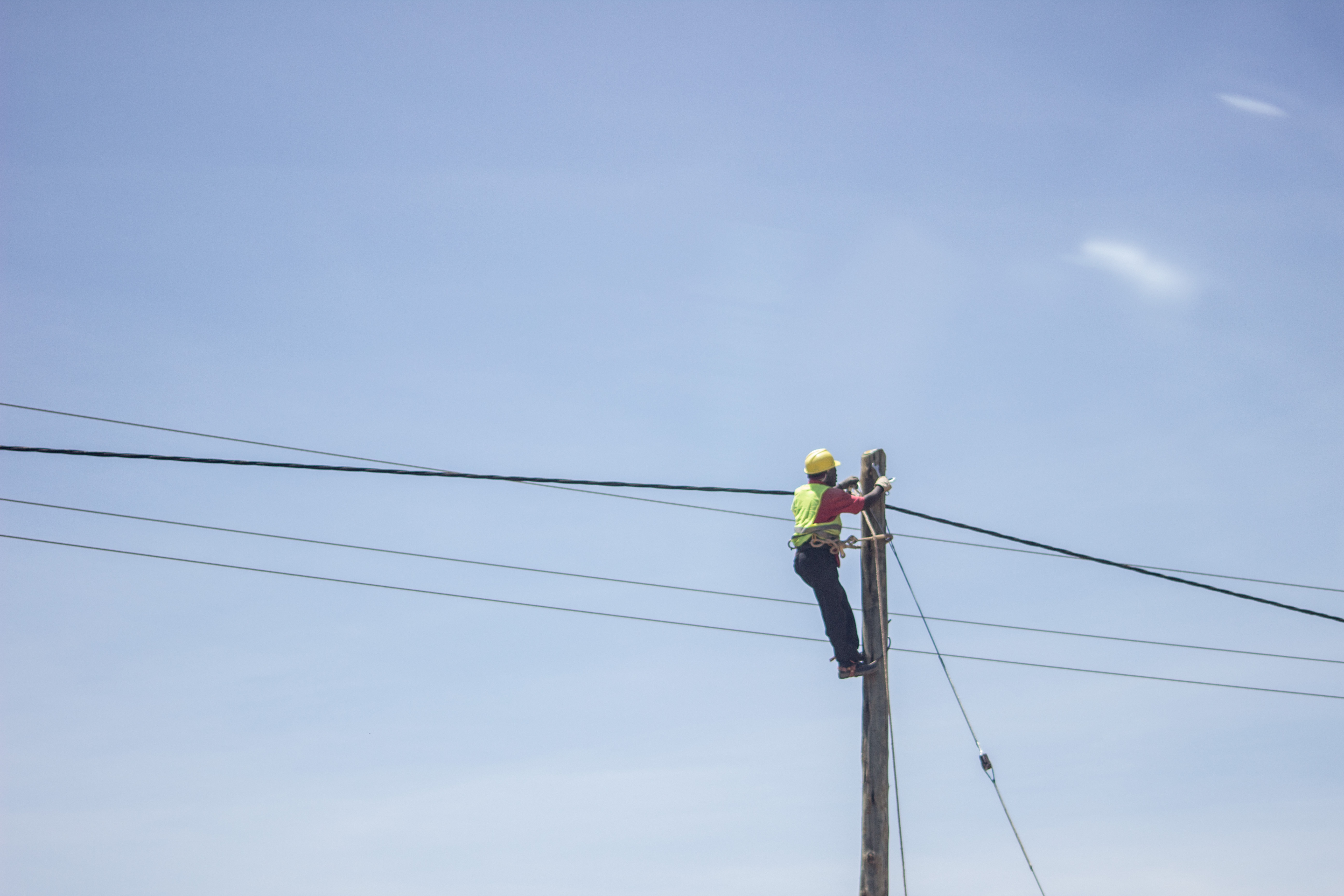 This is an image of "African people at work" from Tanzania